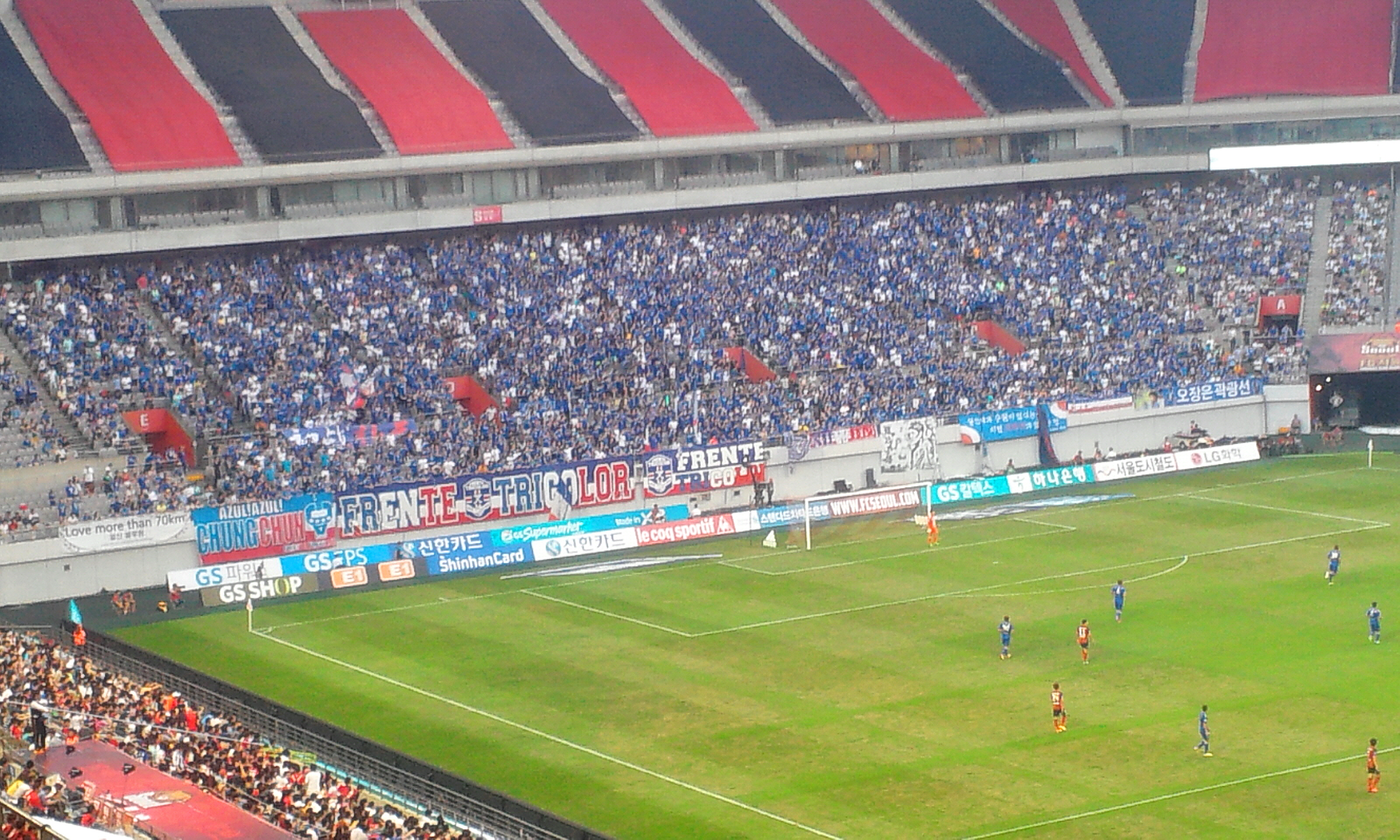 Suwon Samsung Bluewings supporters' groups of Super Match. 03.August 2013